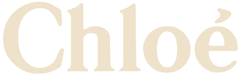 Chloé Logo